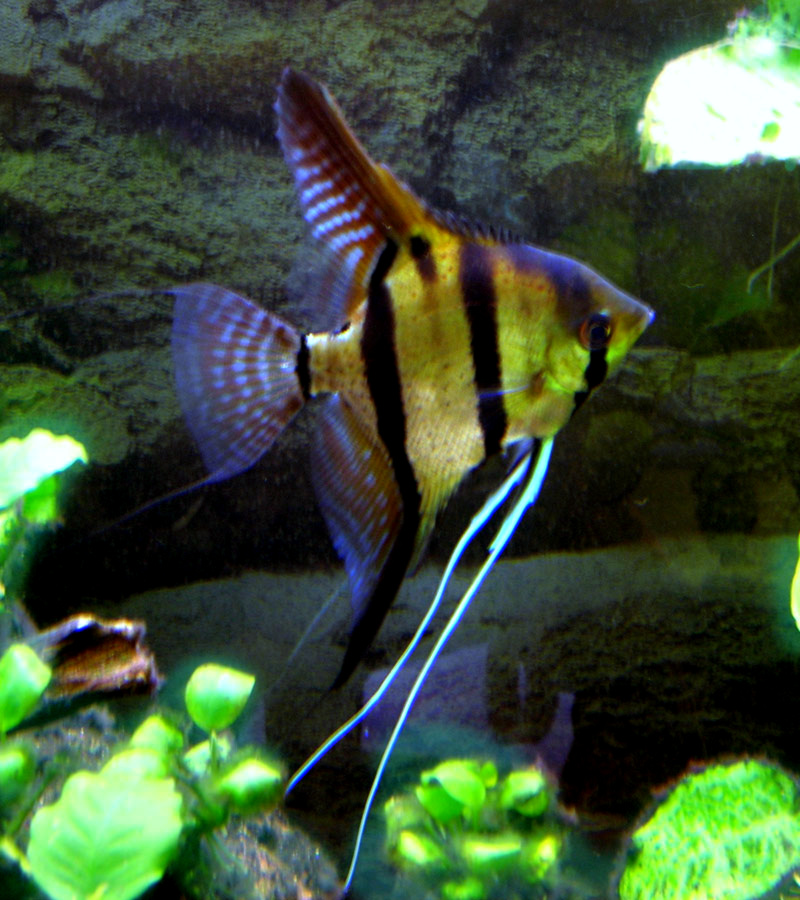 Pterophyllum scalare male